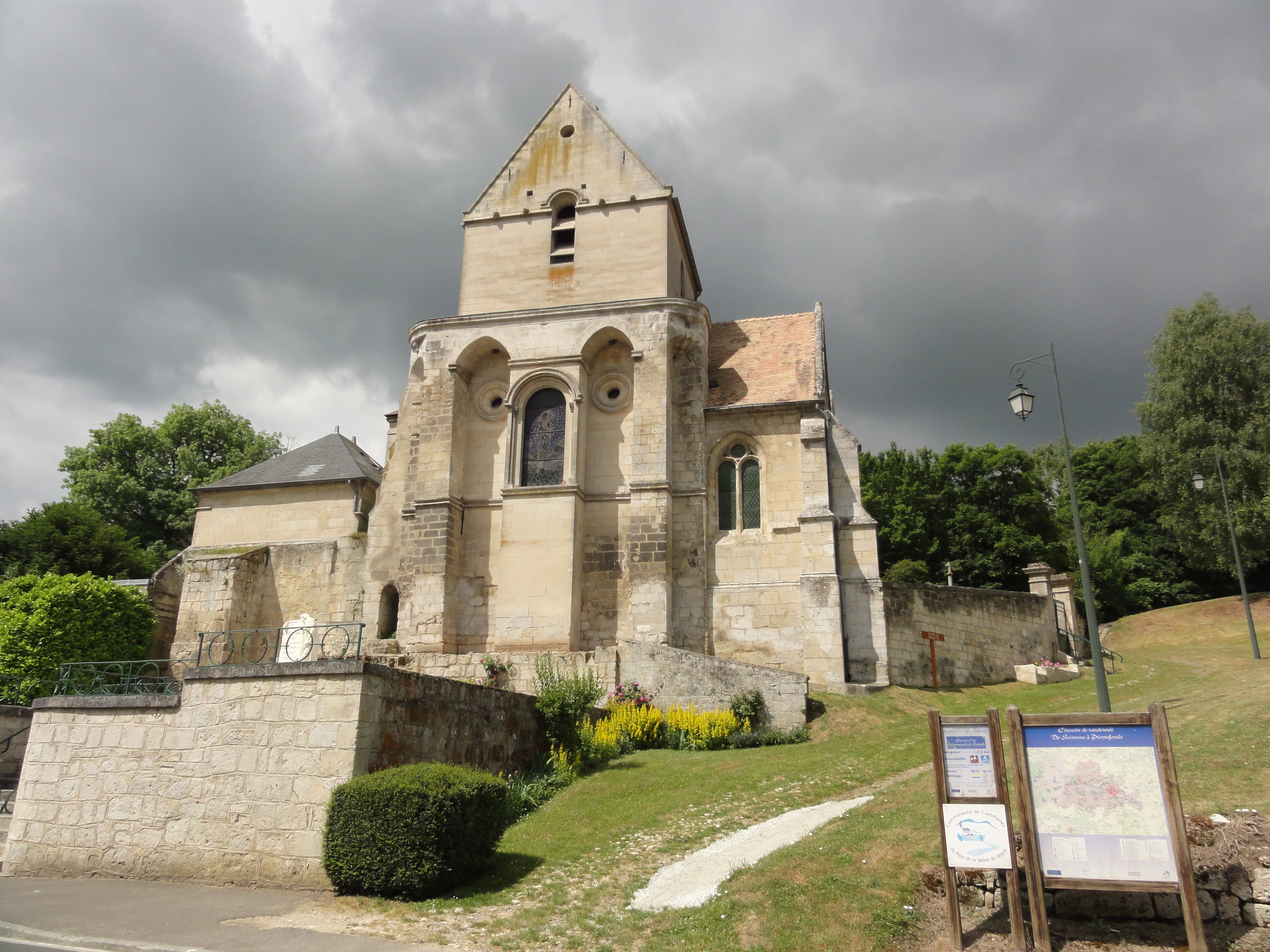 Laversine (Aisne) église